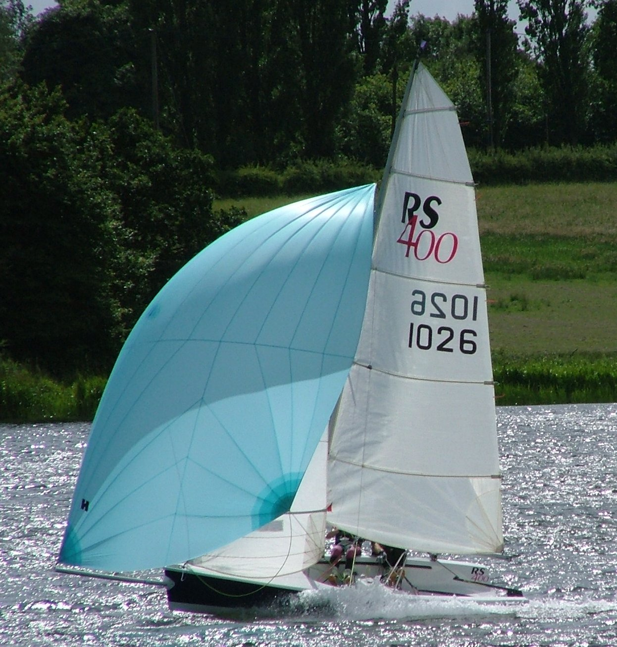 RS400 at a Summer Sunday Series race at Leigh & Lowton Sailing Club - Pennington Flash.